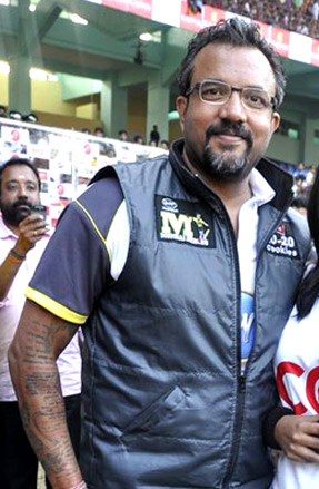 Apoorva Lakhia and Priyaman at Celebrity Cricket League.